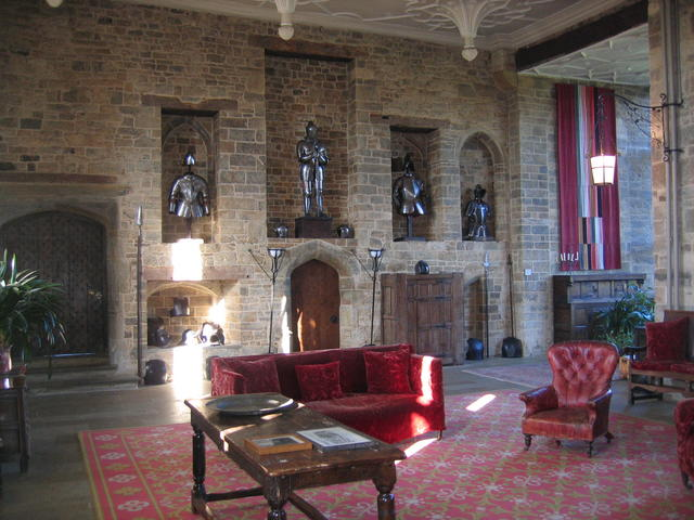 Great Hall, Broughton Castle Inside the Great Hall of SP4138 : Broughton Castle, home of the Lord Saye and Sale. As well as having considerable historical interest, particularly related to the English Civil War, the Hall has featured in many film and TV programmes. It can be seen, for example, in Shakespeare in Love, the Six Wives of King Henry the VIII, and was used for one of Morecombe & Wise's Christmas shows.